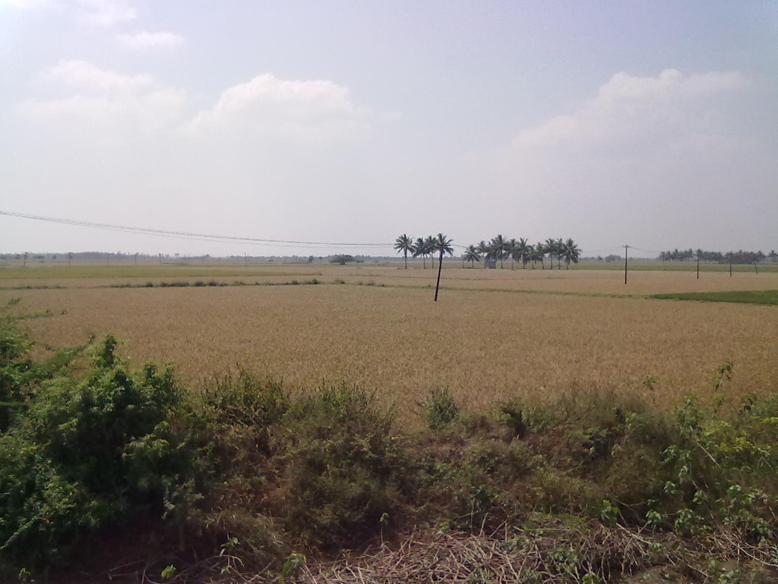 This is a Paddy field in regunathapuram